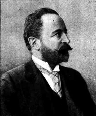 Alfred Pelldram, Consul-General of Germany for Australia, in the Sydney Mail, 6 October 1894.